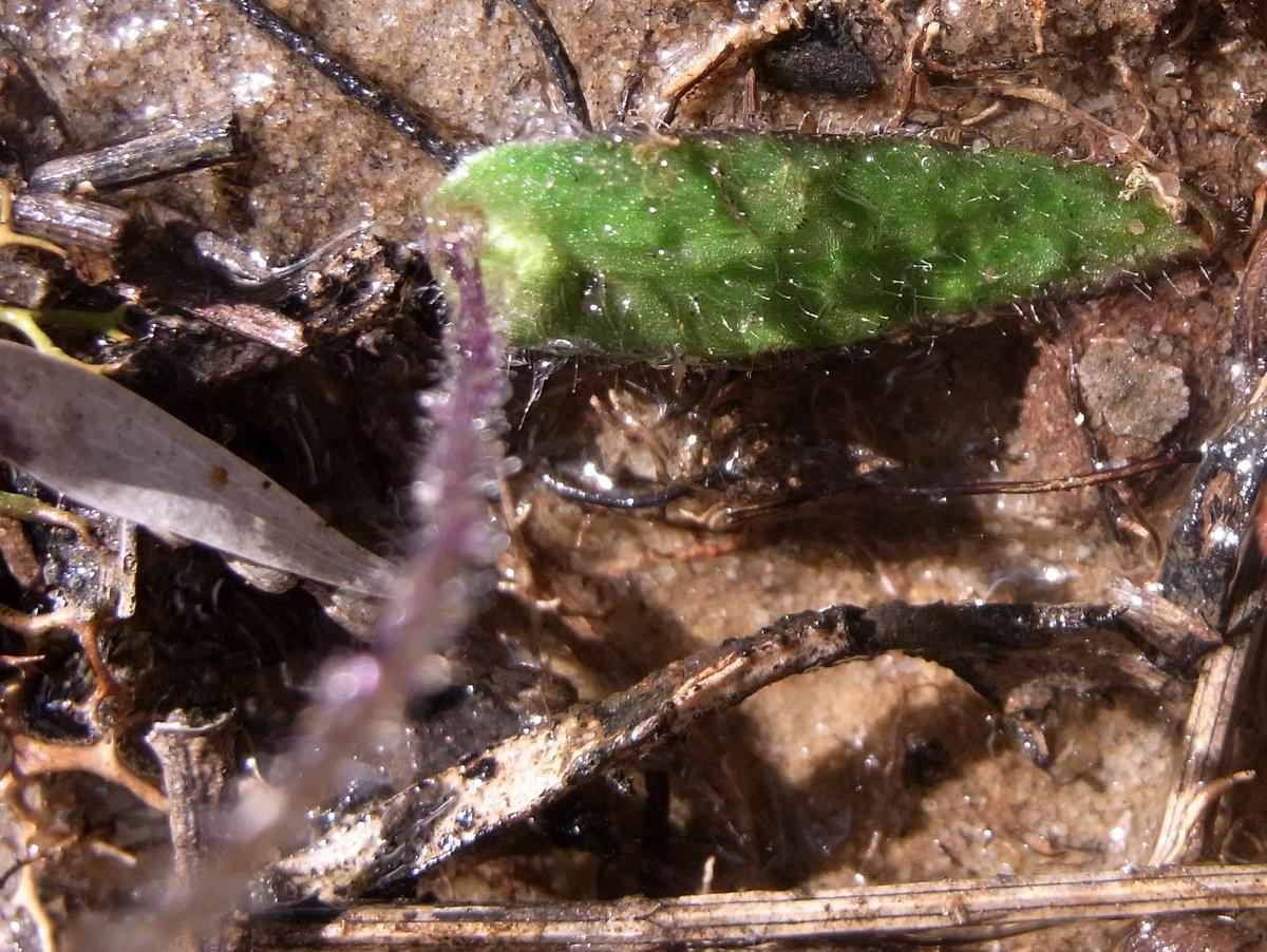 Small Waxlip Orchid leaf, Challenger Track, Ku-ring-gai Chase National Park, Australia